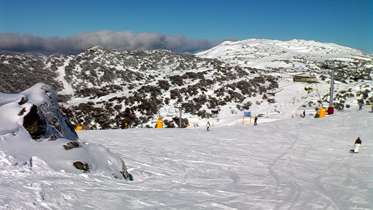 Perisher Ski Resort: view to Mount Blue Cow Terminal, from top of Ridge Quad Chair, July 2011.